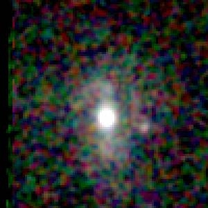 Galaxy NGC 418